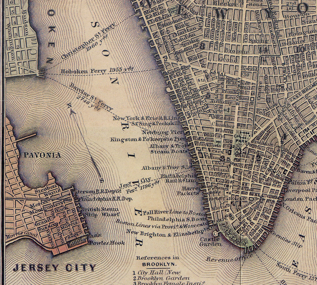 1847 map of Lower Manhattan, reproduced in Twelve Historical New York City Street and Transit Maps from 1860 to 1967.